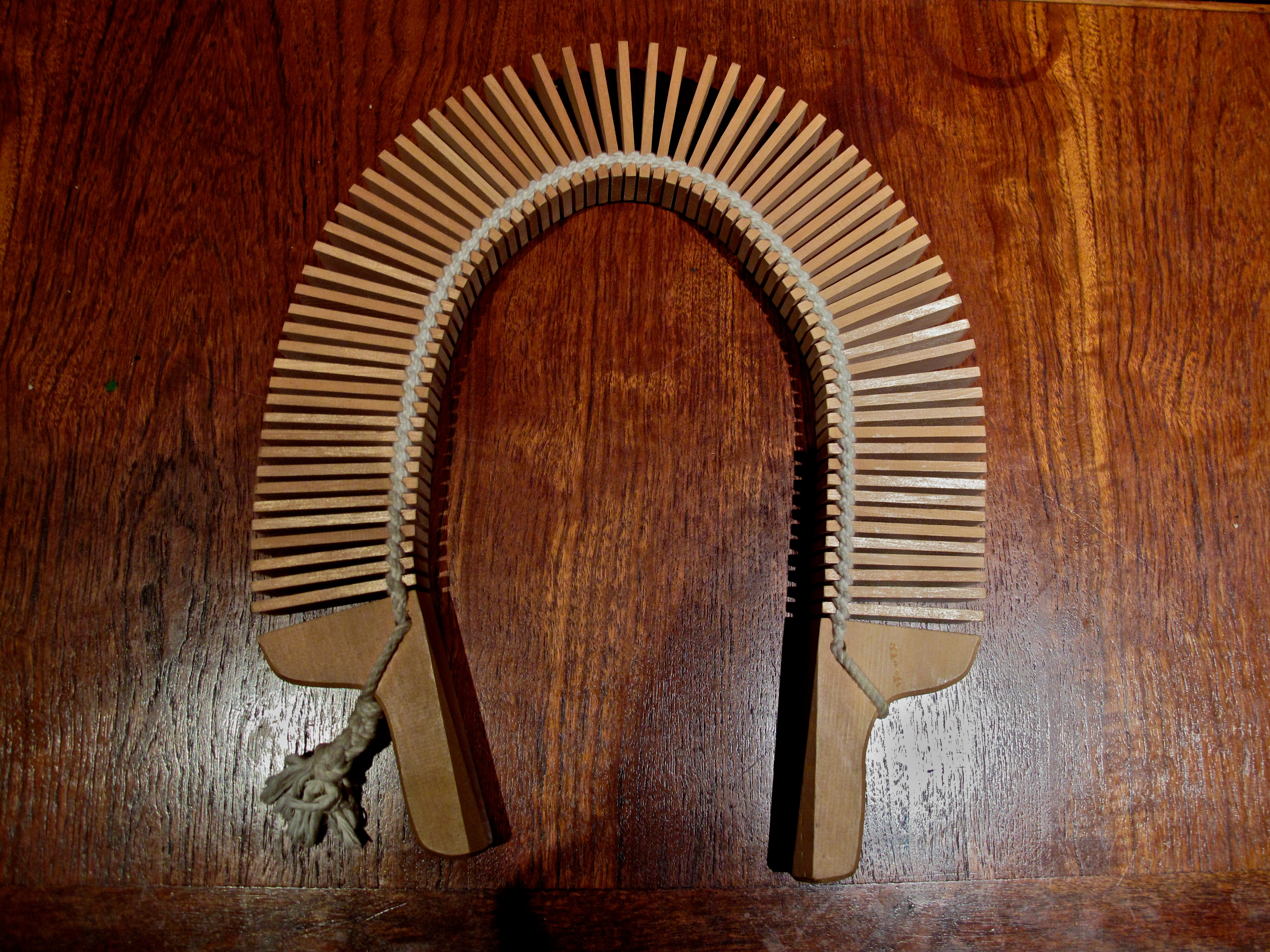 Binzasara - Bin-zasara - Binsasara - Bin-sasara